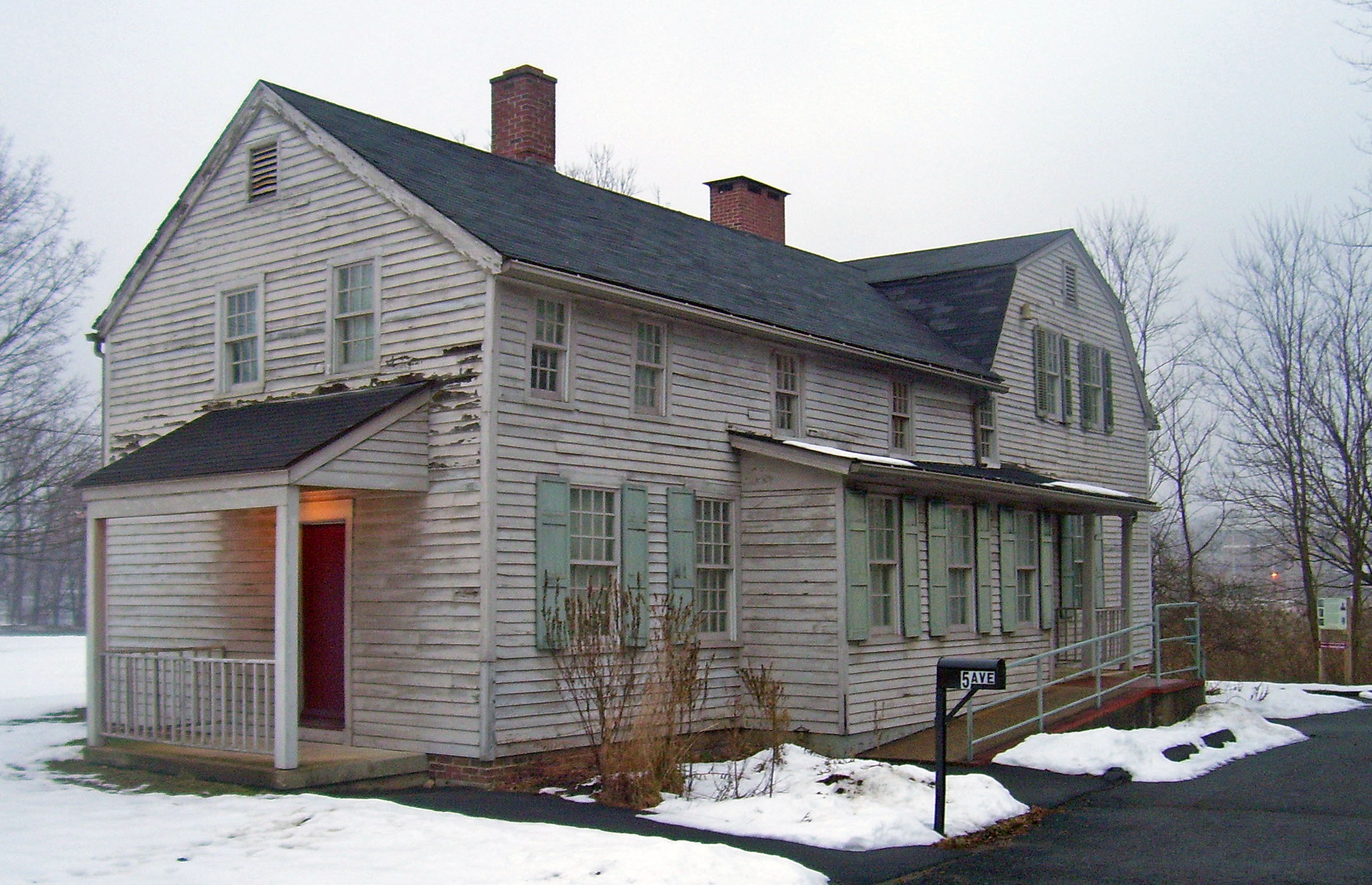 Home of composer Charles Ives, Danbury, CT, USA